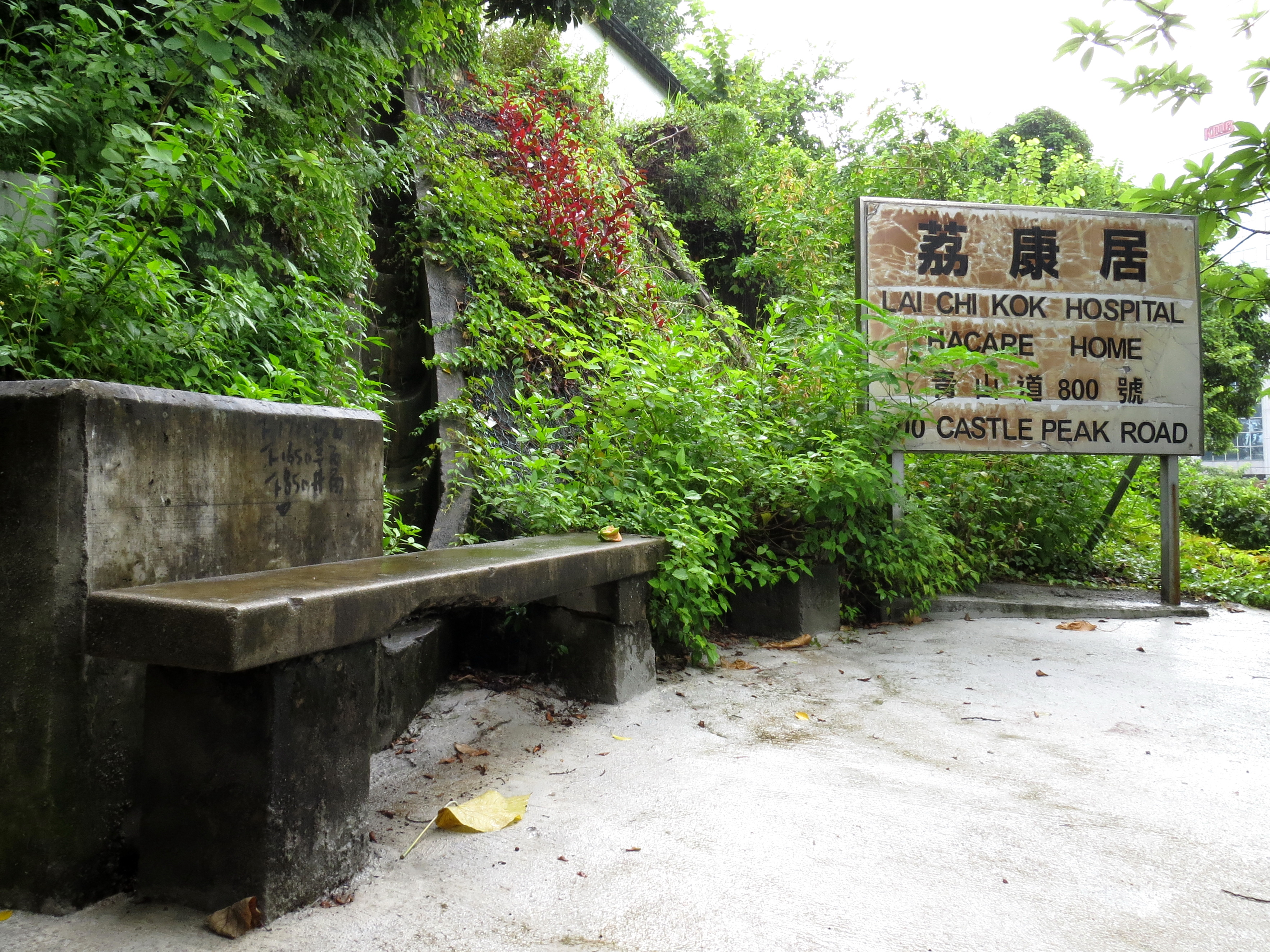 Entrance of the former Lai Chi Kok Hospital, HACare Home, 800 Castle Peak Road, Kowloon, Hong Kong.